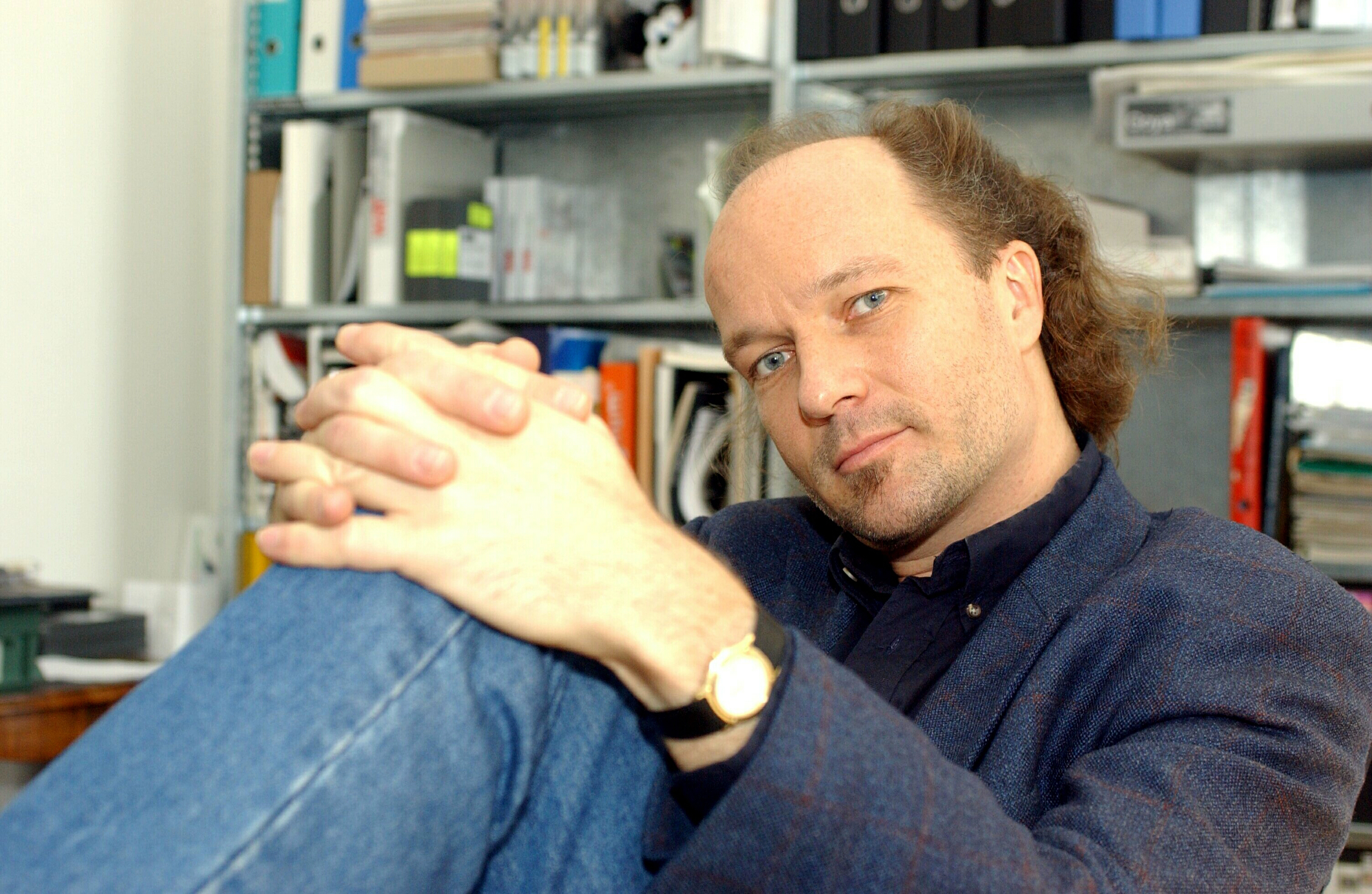 Portrait of Swiss director Christian Frei.